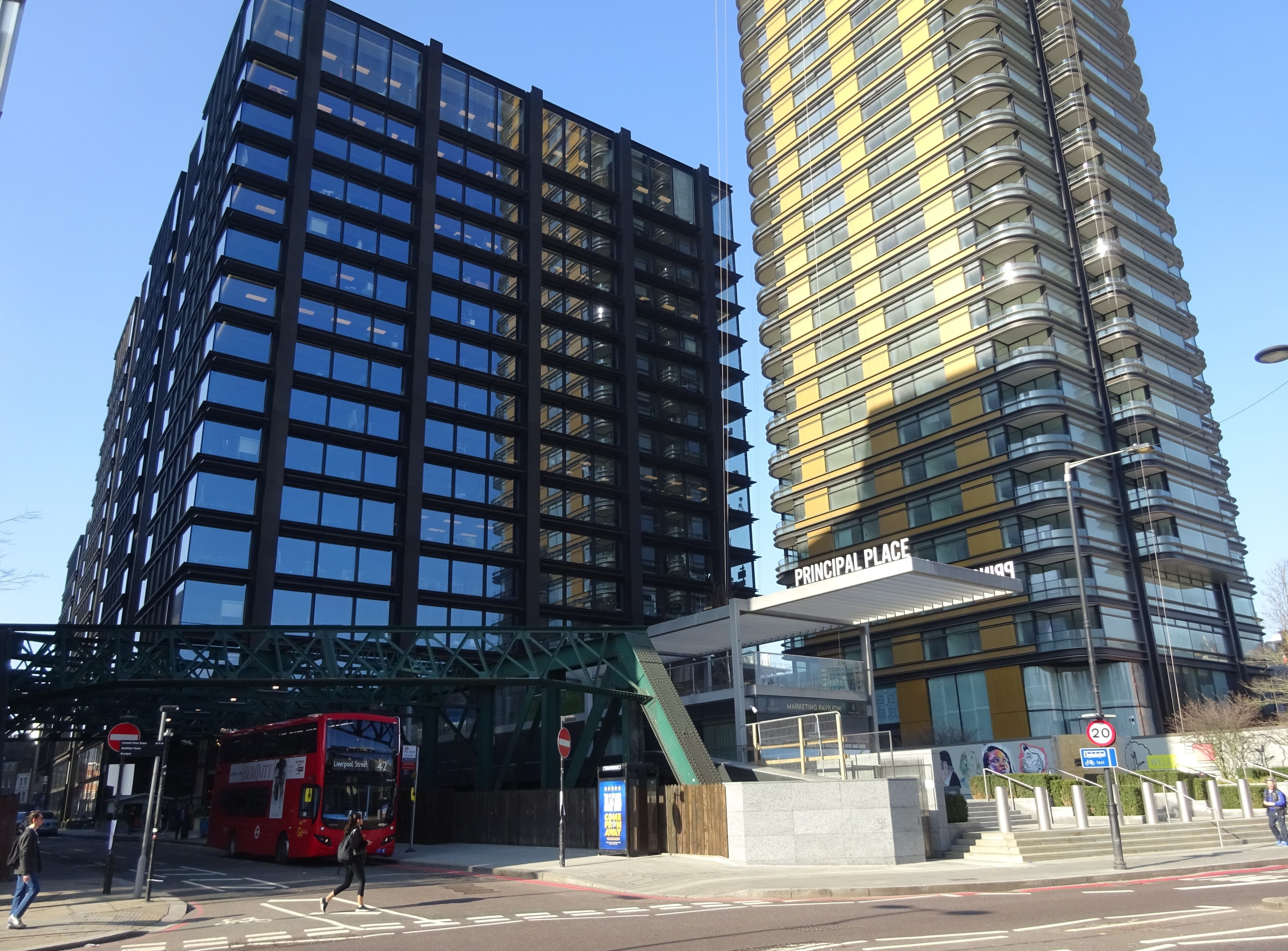 Principal Place, Worship Street, Shoreditch, London E1; with the neighbouring high-rise residential block Principal Tower to the right